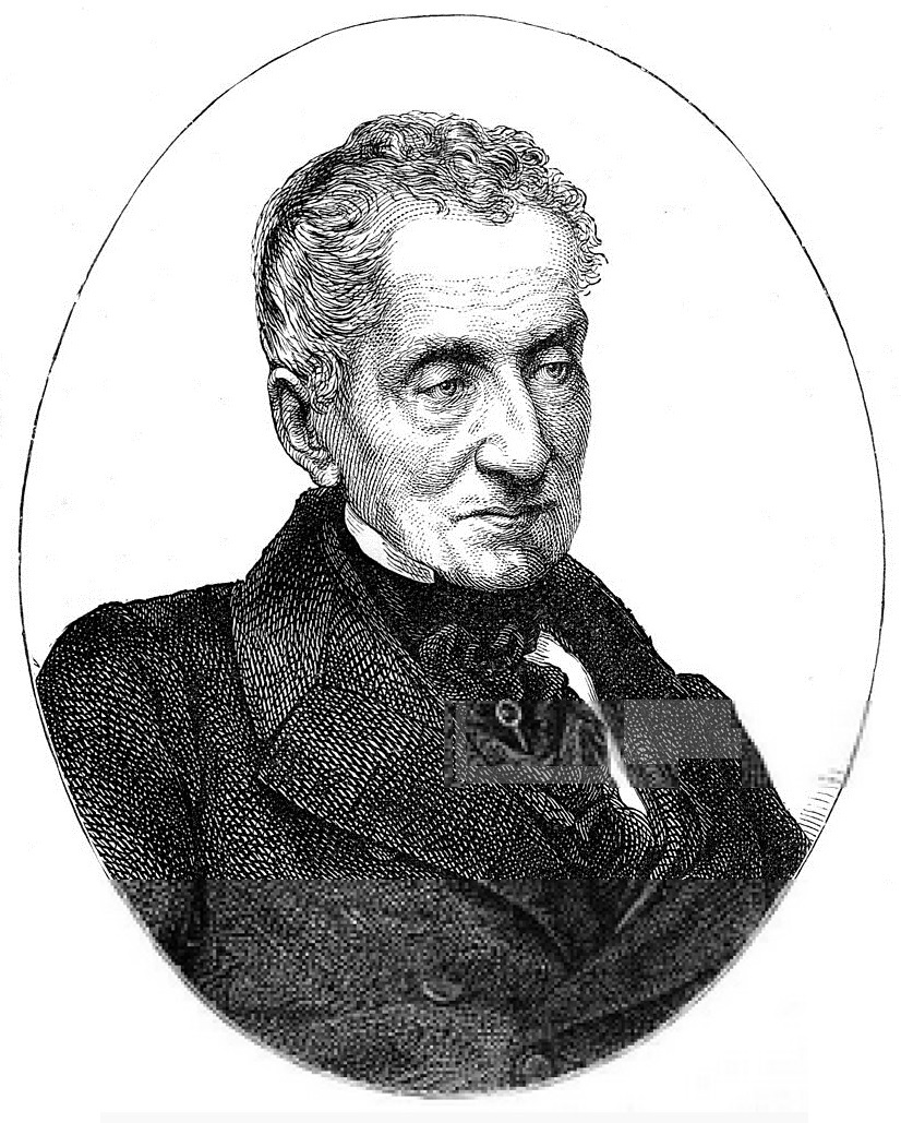 Metternich, engraving by Hugo Bürkner